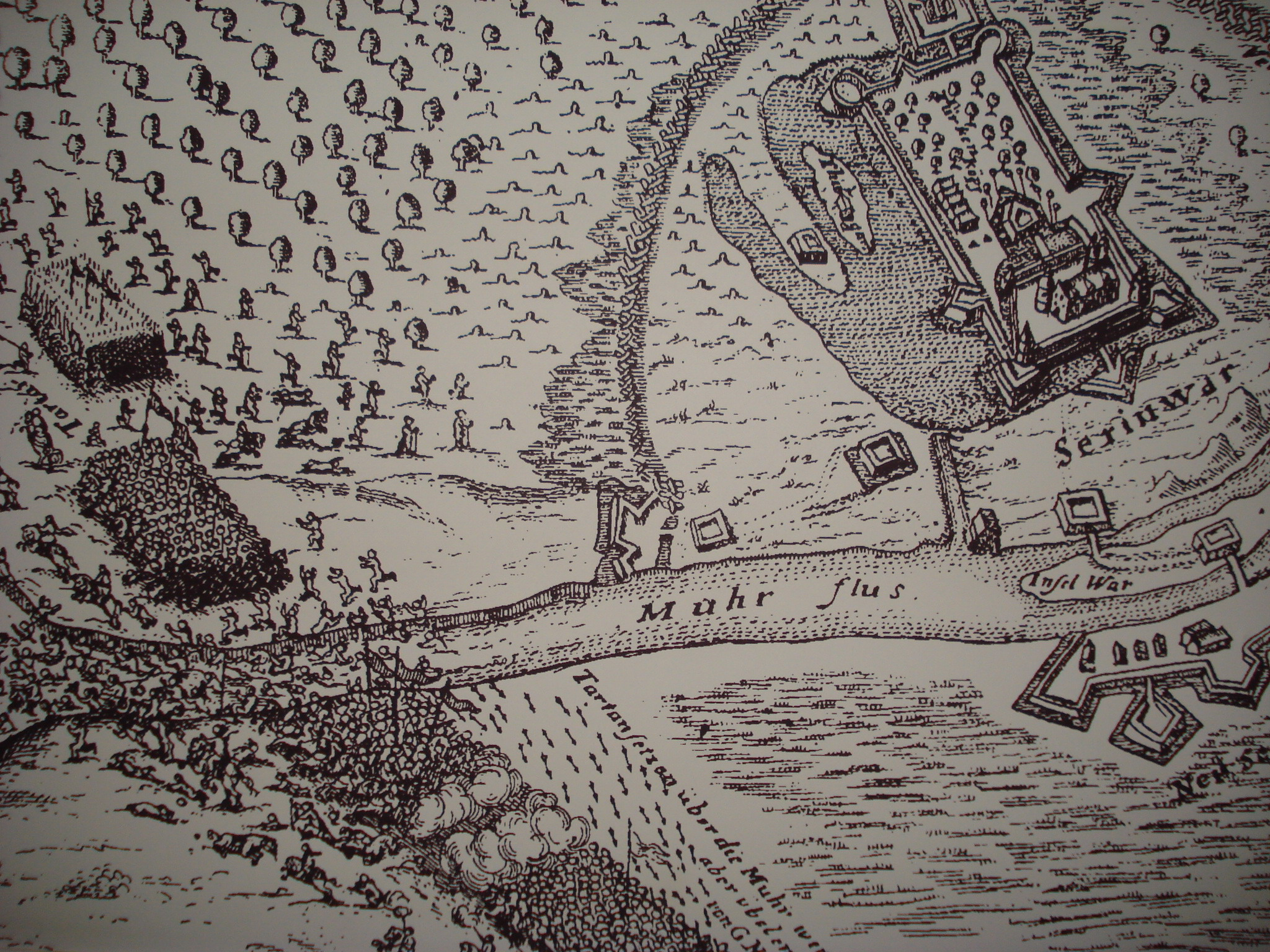 Depiction of a battle at Mura River during the siege of Novi Zrin Castle (Medjimurje County, Croatia) by the Ottomans (5th June-7th July 1664) - author unknownHrvatski: Prikaz jedne od bitaka na rijeci Muri za vrijeme turske opsade utvrde Novi Zrin, Međimurje, Hrvatska (5.lipanj-7.srpanj 1664.) nepoznatog autora